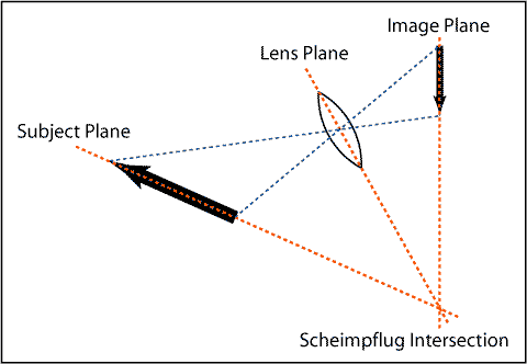 Fil Hunter, 2006